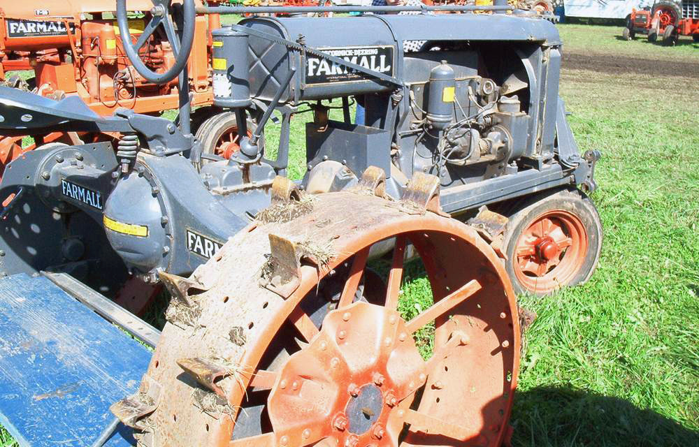 Farmall Regular tractor